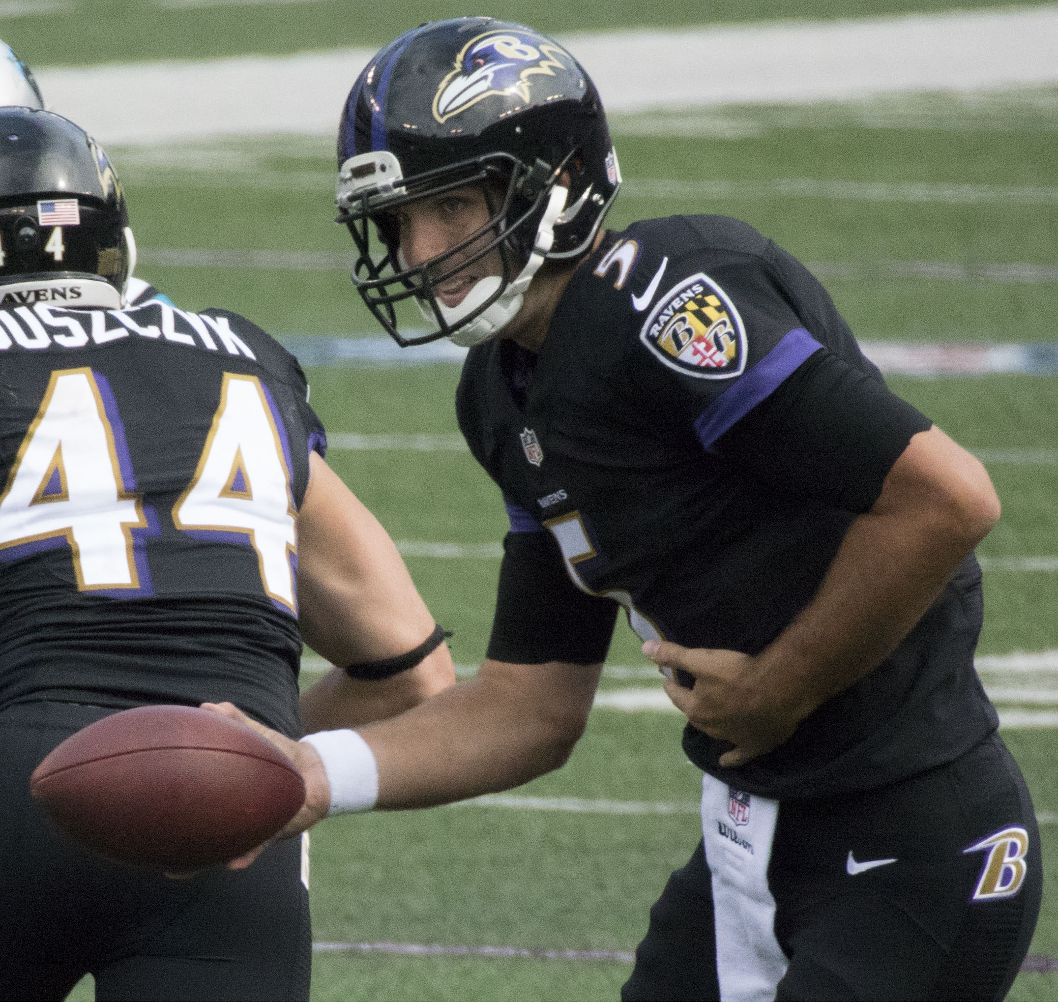 Panthers at Ravens 9/28/14